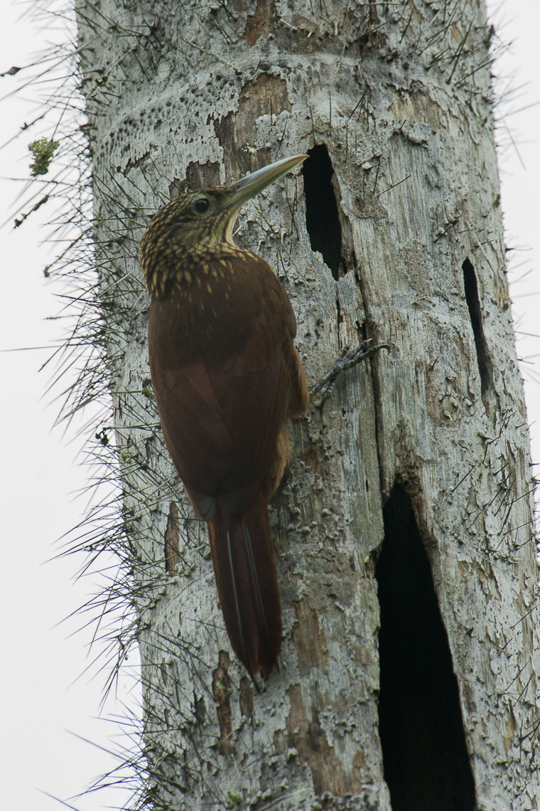 Lafresnaye's Woodcreeper - Manu NP_9461